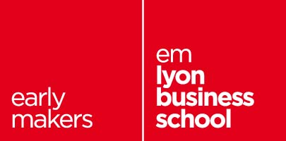 The new logo of emlyon business school